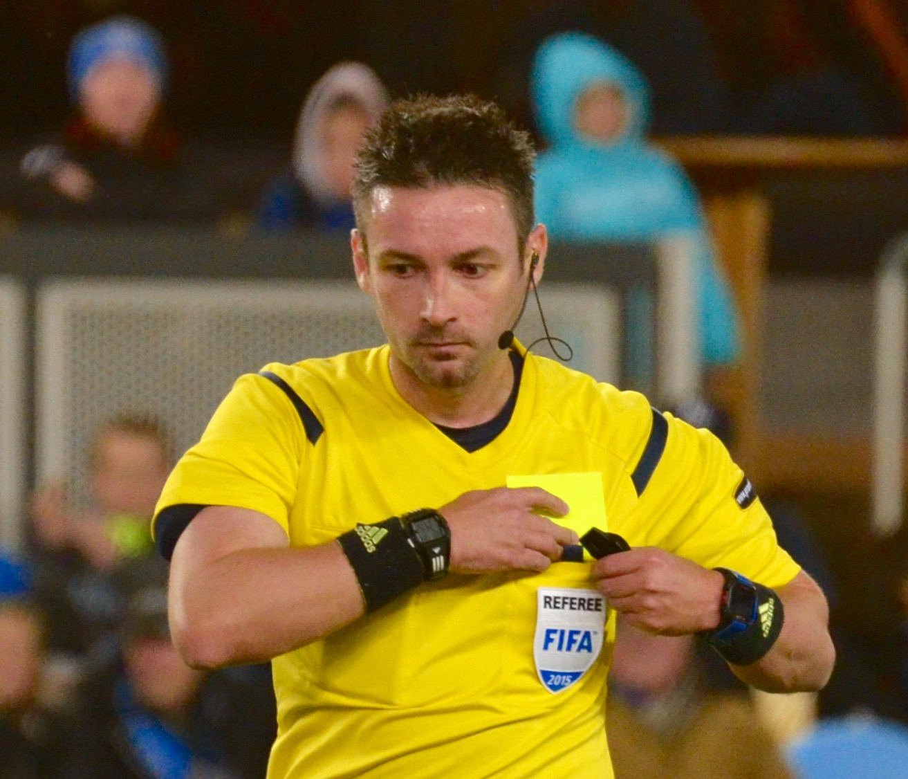 Edvin Jurisevic produces a yellow card, 11 April 2015, at Avaya Stadium in a game between Vancouver Whitecaps and San Jose Earthquakes